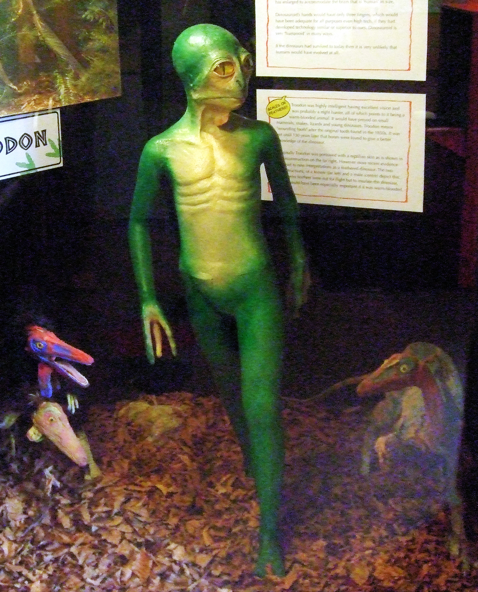 In 1982 paleontologist Dale Russell, curator of vertebrate fossils at the National Museum of Canada in Ottawa, conjectured a possible evolutionary path that might have been taken by bipedial predator dinosaurs had they not all perished in the K/T extinction event 65 million years ago. A few scientists have followed Russel's idea, but many are highly skeptical.